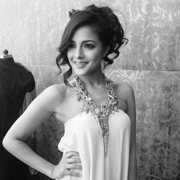 At a shoot for Style and the city